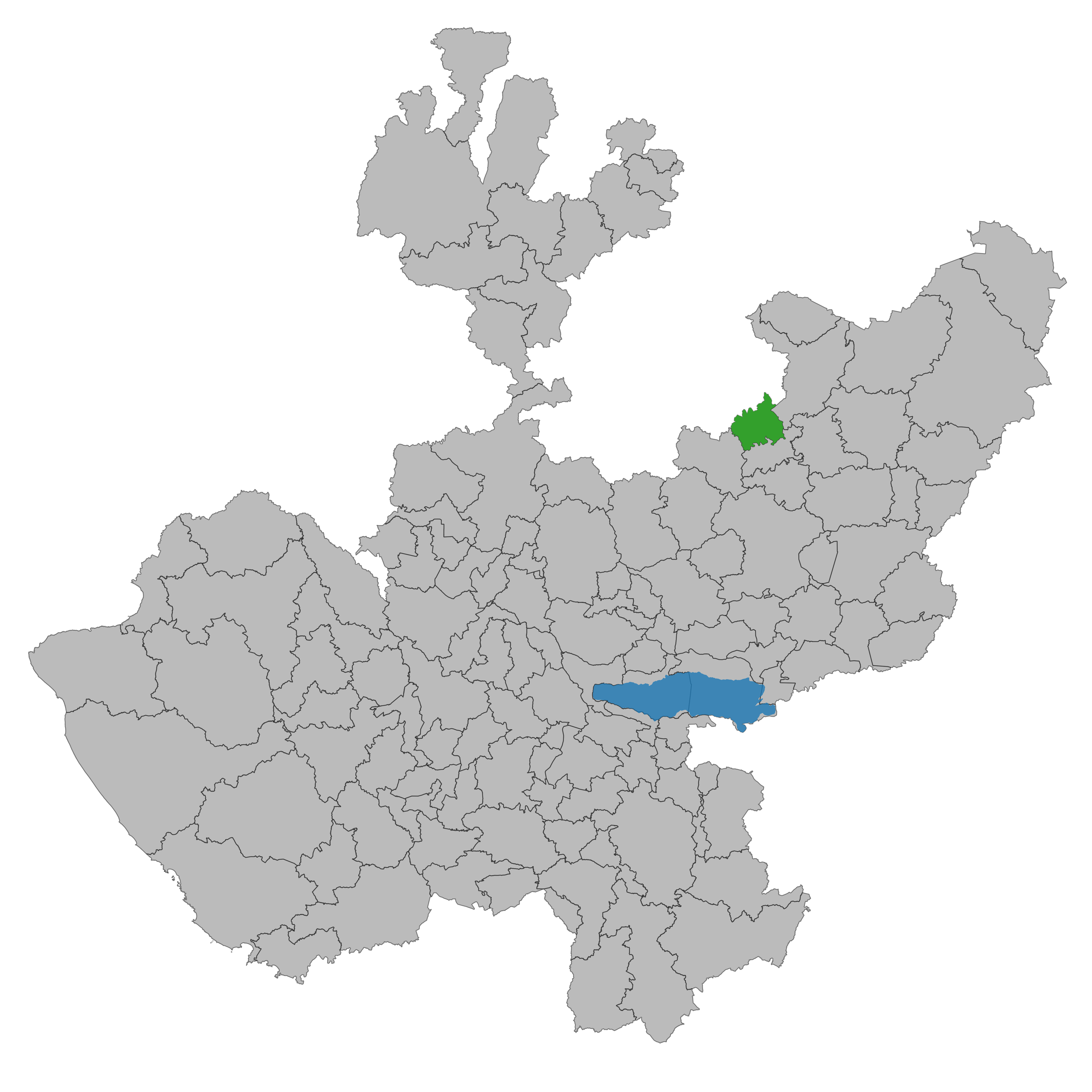 Municipality of Jalisco. Prepared with the software QGIS version 2.8.2 Wien & with information of SCINCE 2010 version 05/2013